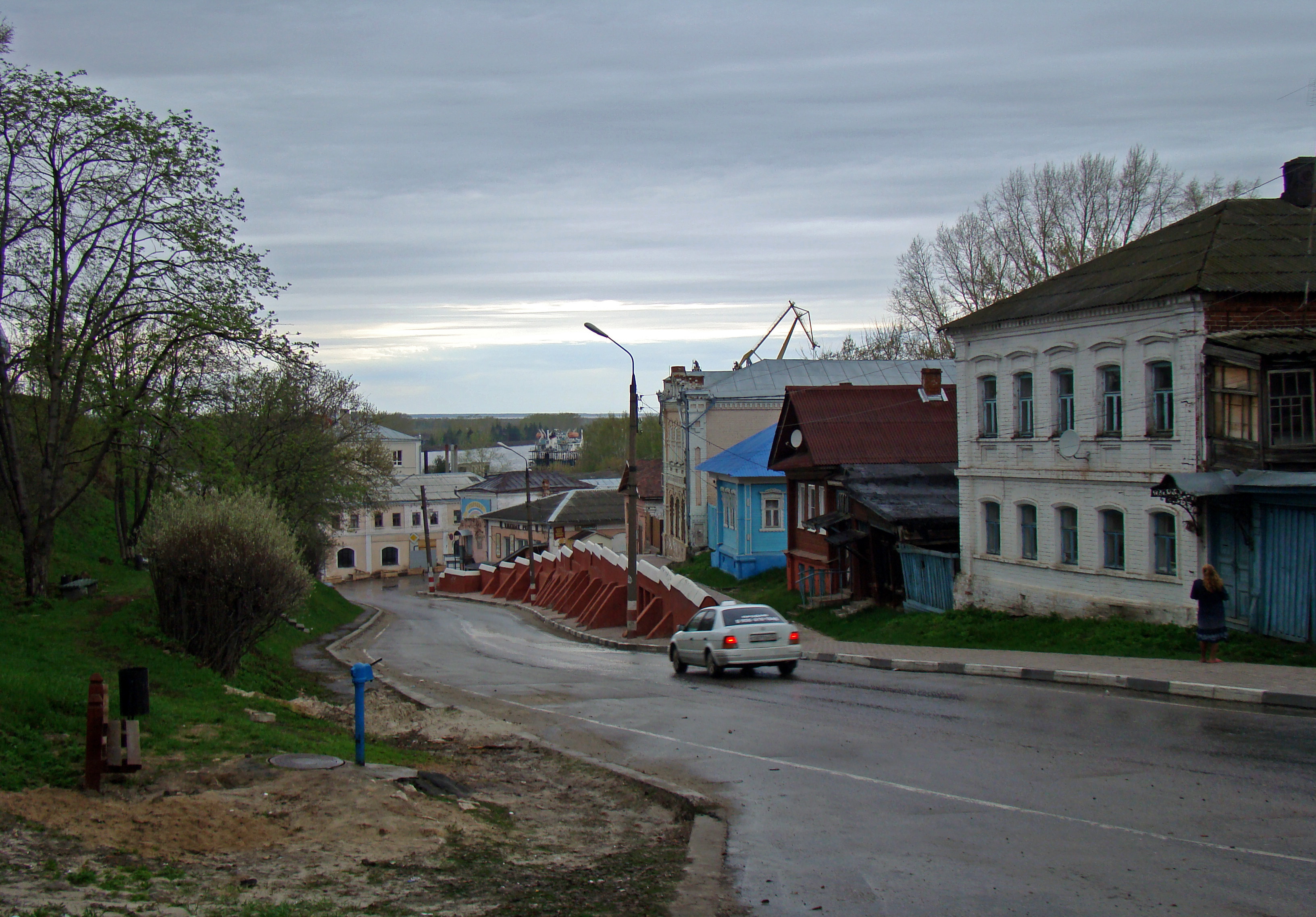 Gorodets. Streets of the town.